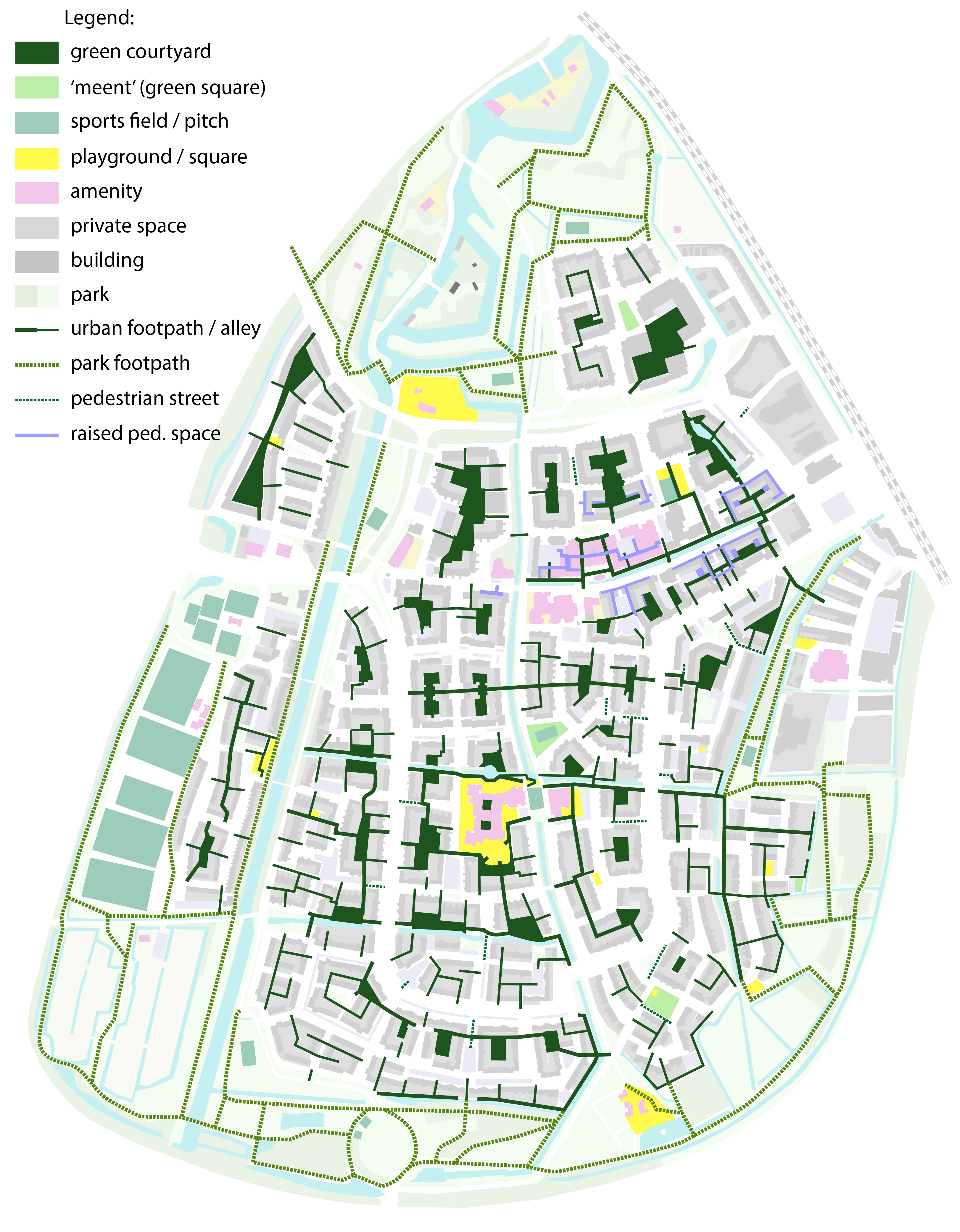 The small-scale urban structure of courtyards and alleys of Lunetten, Utrecht, in the Netherlands. Lunetten is an experimental structuralist urban design from the early 1970s.